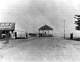 Looking south towards the intersection of Pier St and The Esplanade, Altona